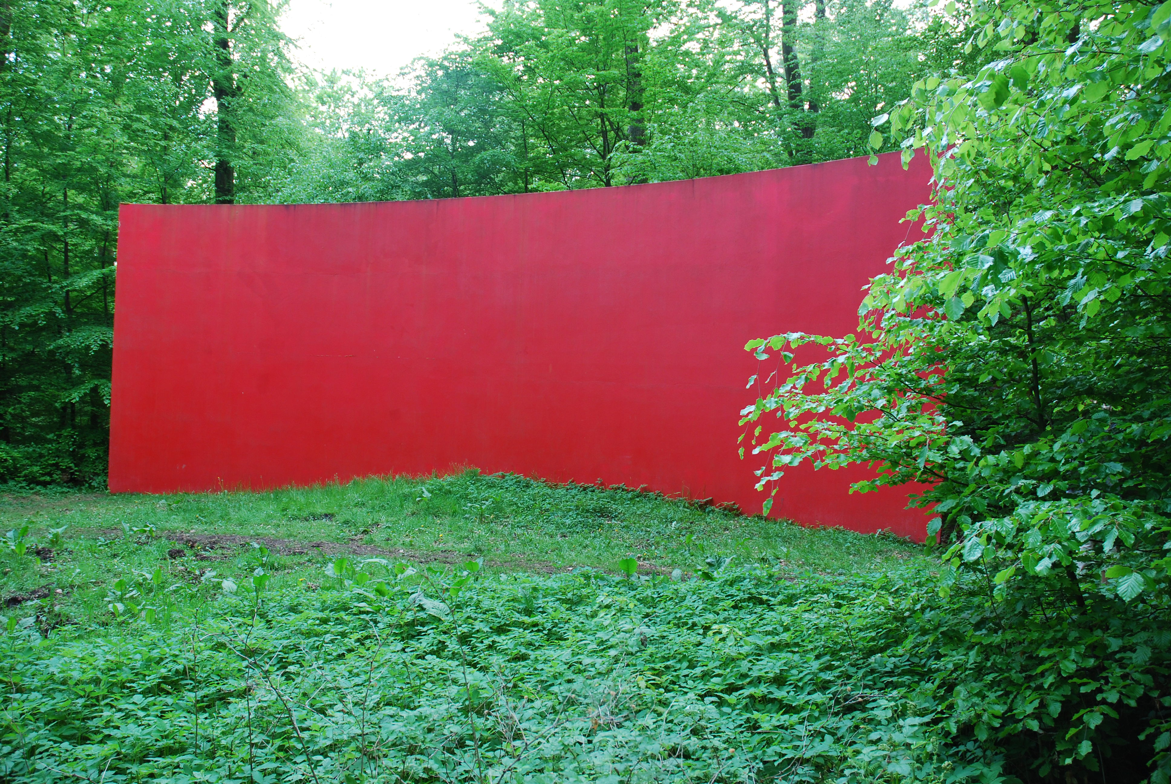 Gloria Friedmann´s The Wanås Wall, Wanås Castle, Sweden